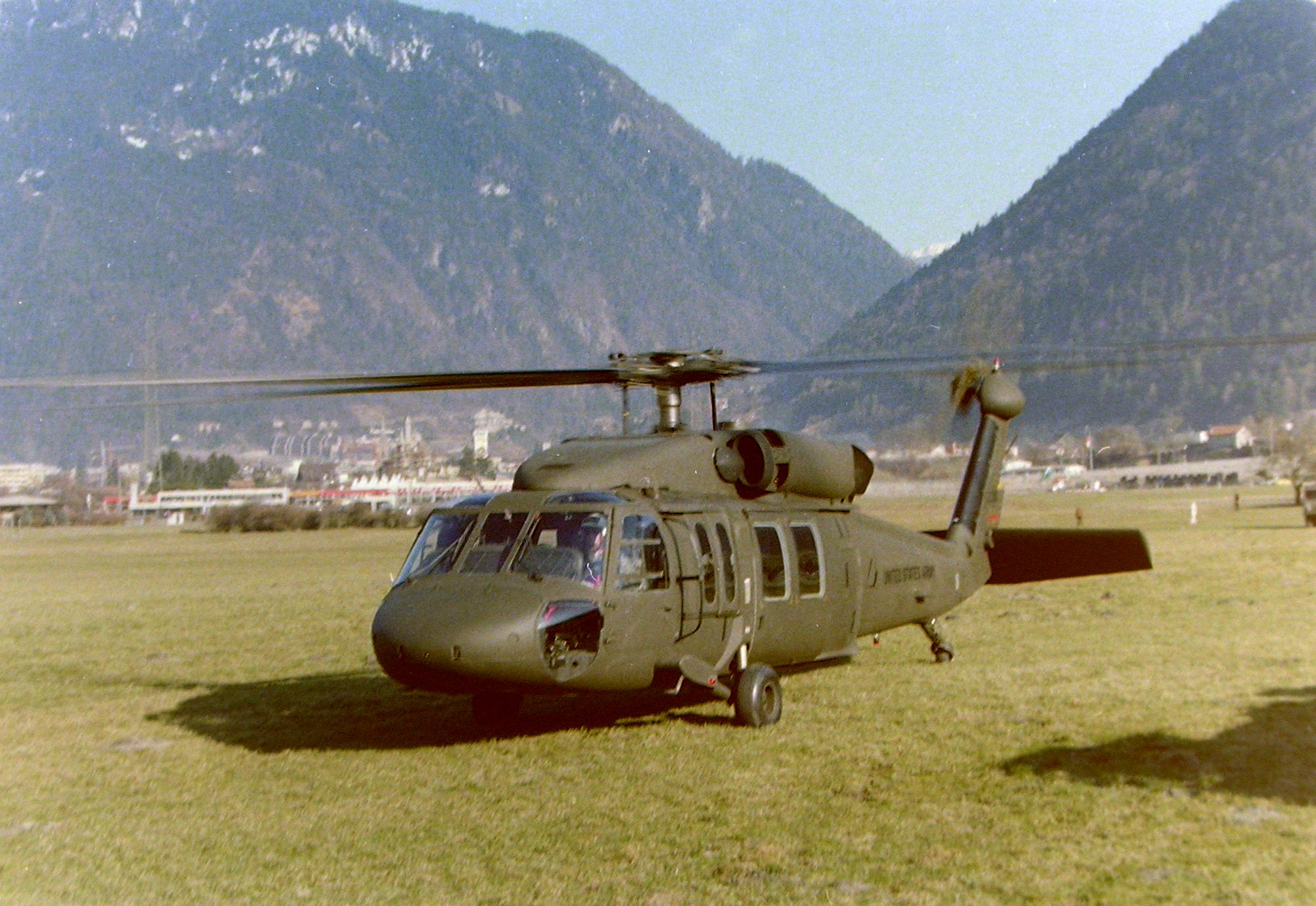 US UH-60 Black Hawk at "Rossboden" Army Training Area in the vicinity of Chur during test flying with the Swiss Air Force.